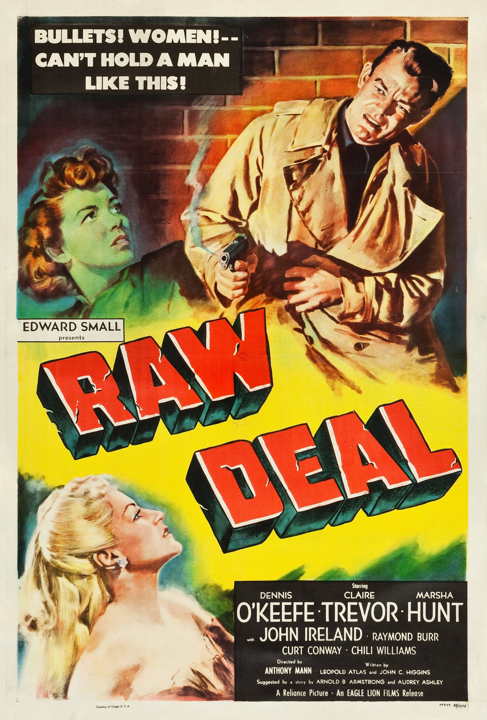 Poster for the movie Raw Deal (1948), featuring (clockwise from upper right) stars Dennis O'Keefe, Claire Trevor, and Marsha Hunt